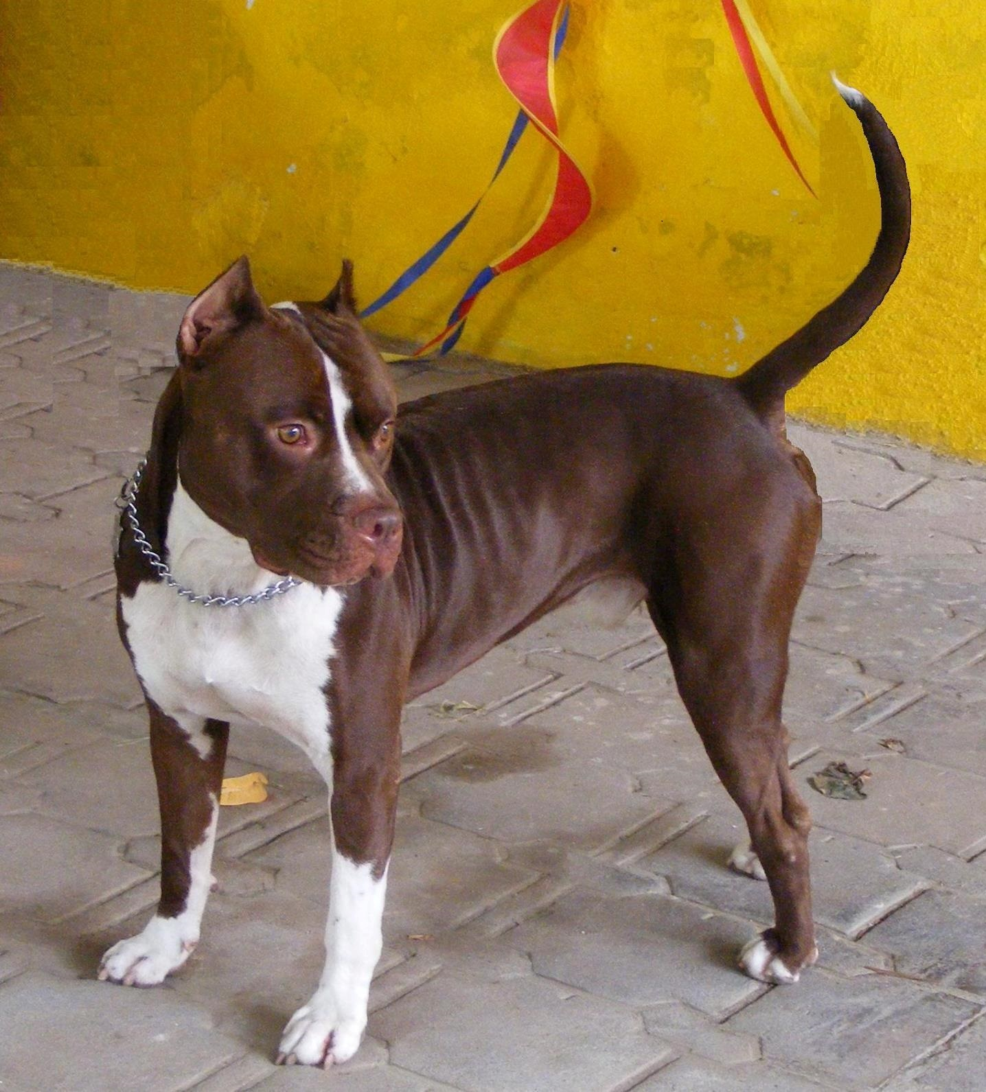 American Pit Bull Terrier Red Nose (named Tyson) attentive.